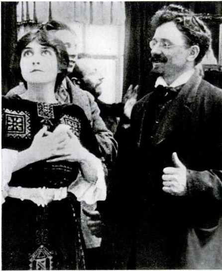 Screenshot from 1914 silent film "My Official Wife"; now discredited speculation once claimed that bearded man at right was Leon Trotsky